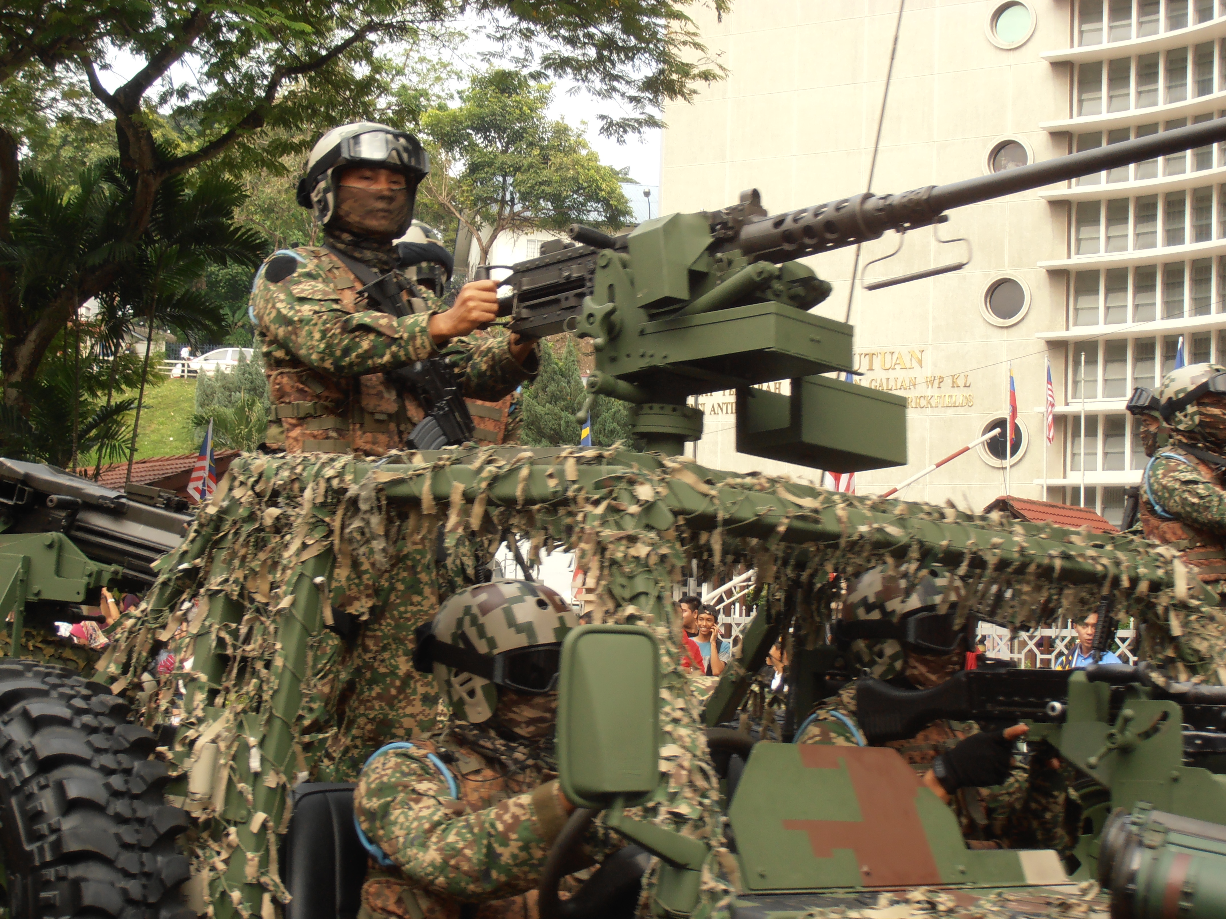 The GGK tactical vehicle equipped with 12.7mm M2 Browning heavy machine gun on parade at the Merdeka Square, Kuala Lumpur, Malaysia during the National Day Parade of 2014.